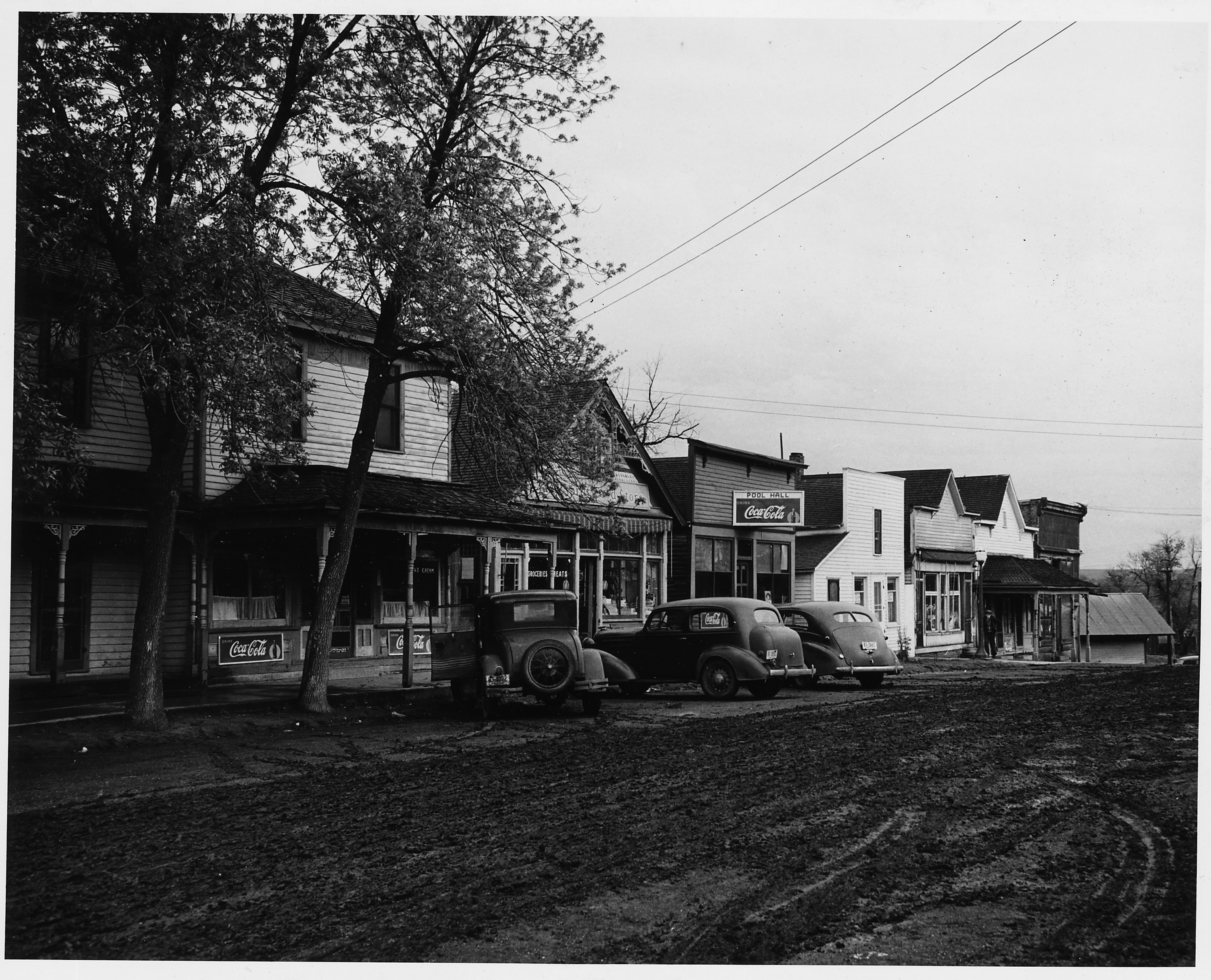 Scope and content: Full caption reads as follows: Shelby County, Iowa. The village of Irwin is the center of a community -- village and hinterland -- including most of four townships. Its population, including both farm and village people, is about 1500. These pictures show Irwin's main street with its bank, post office, stores and offices. Farm people can buy most of what they need here in the village, but there are other and larger towns within easy driving distance whose stores are far better stocked.